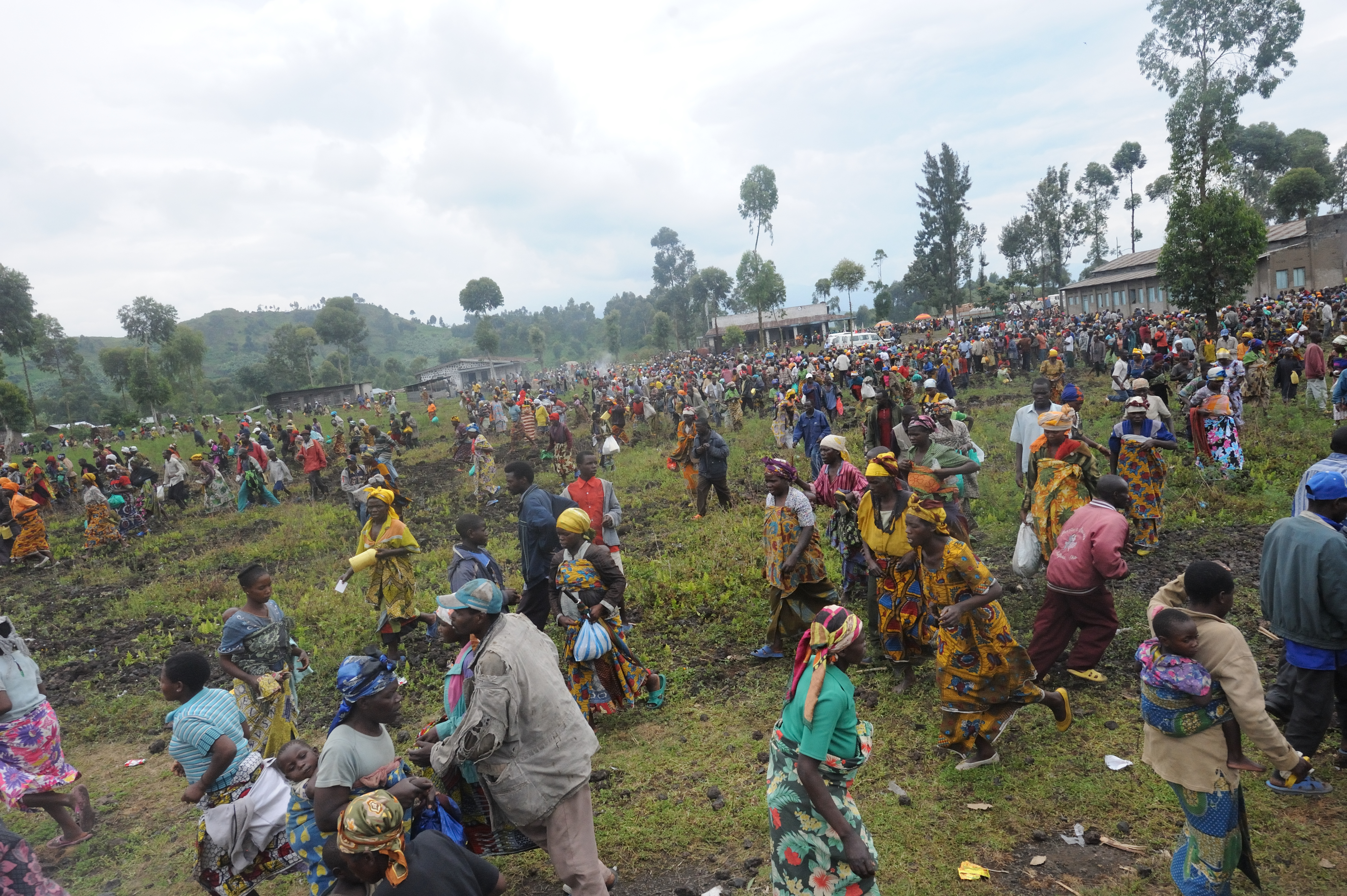 "I was on the outskirts of Kibati camp to oversee our emergency measles vaccination. It was in the same location as an ICRC WFP food distribution. We heard shooting the other side of the camp less than a kilometer away, single shots and automatic for about 15 minutes. People fled the distribution, ran to the camp picked up their belongings and hurried down the hill to Goma. A crowd gathered around an abandoned food truck and started to loot it until government military police came in to restore order. As we drove back more than 200 very tense government troops trudged up the hill, announcing worse to come." - author